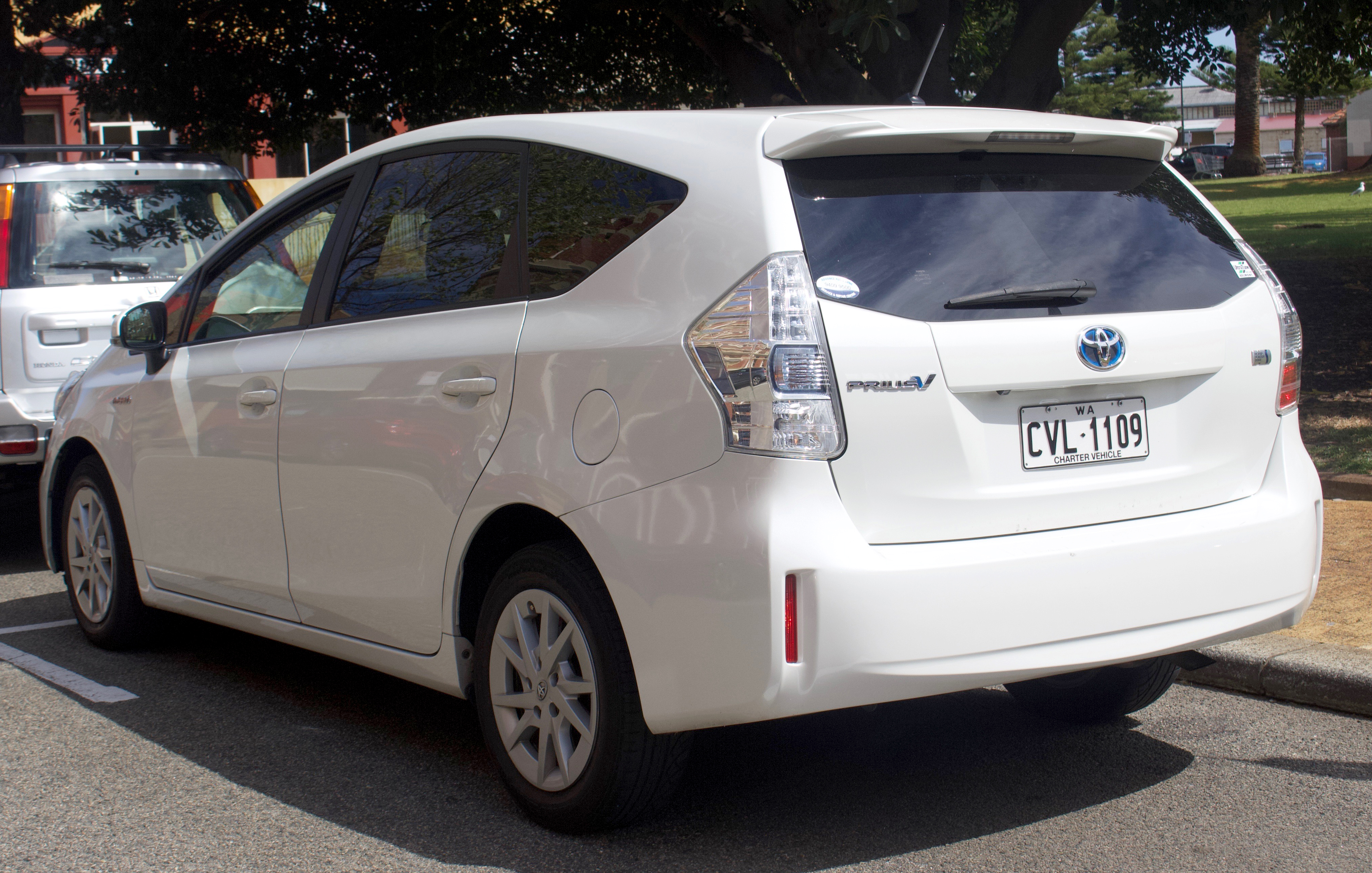 2012-2015 Toyota Prius V (ZVW40R) wagon. Photographed in Fremantle, Western Australia, Australia.